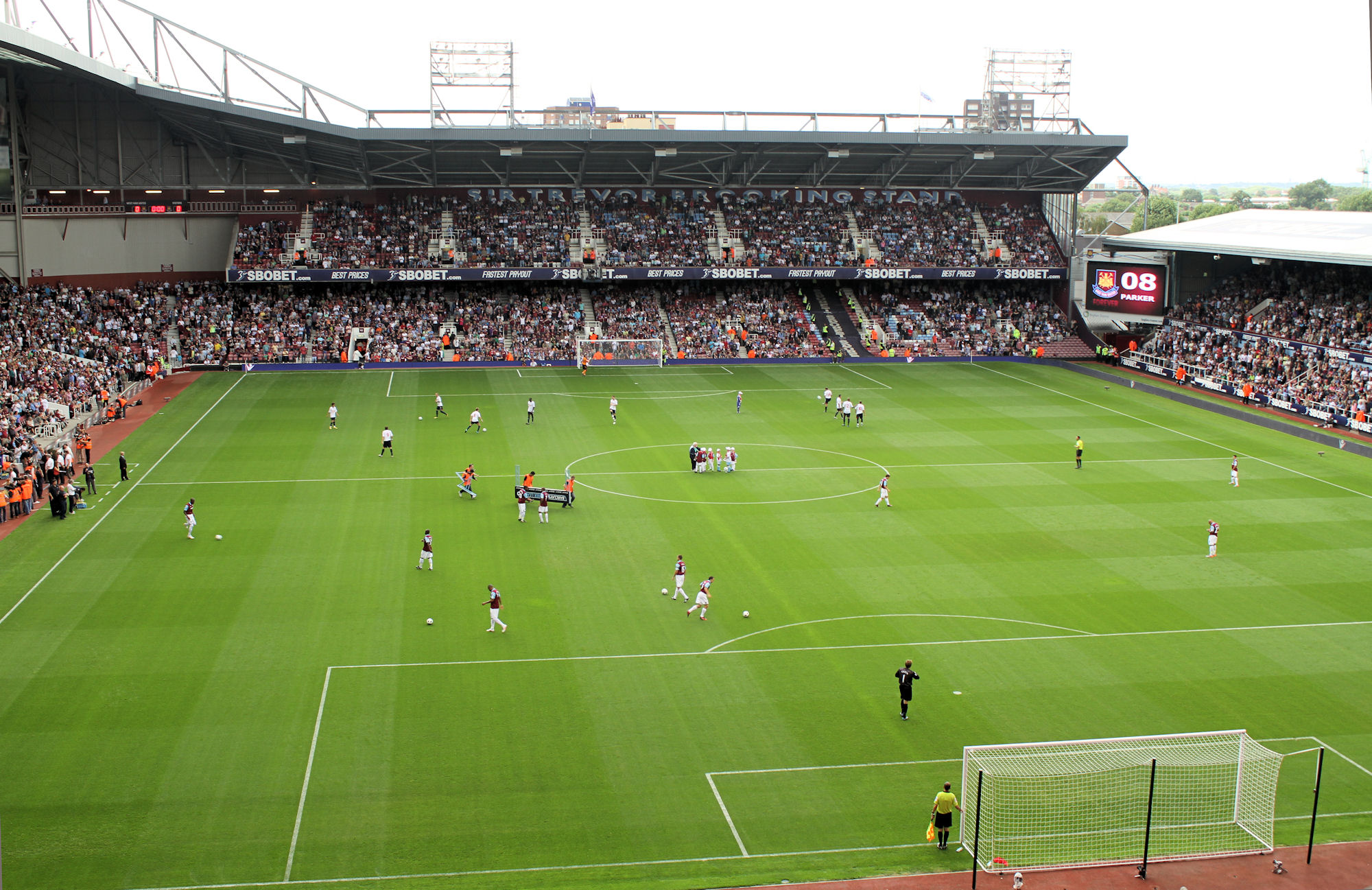 The Boleyn Ground, facing north